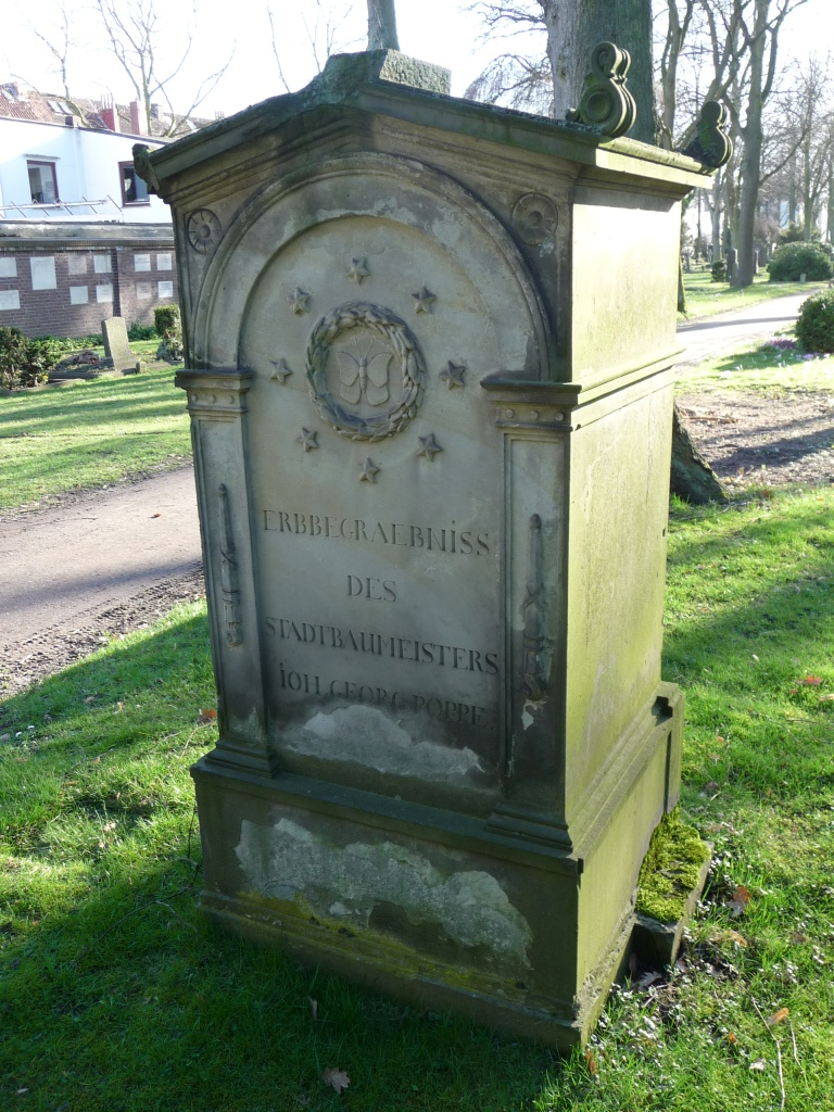 Tomb of Johann Georg Poppe (1769–1826) at graveyard Buntentor in Bremen.